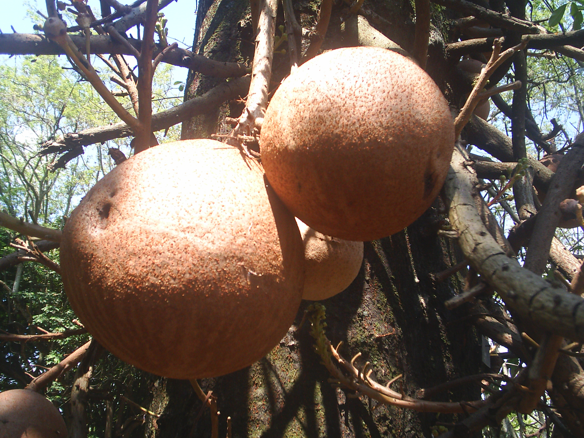 Fruit of CCouroupita guianensis